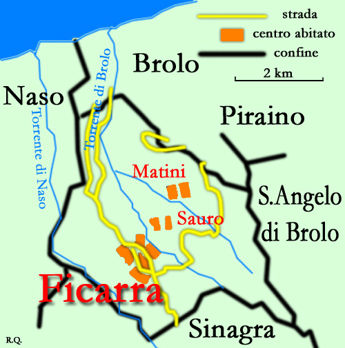 Map of Ficarra, Sicily.